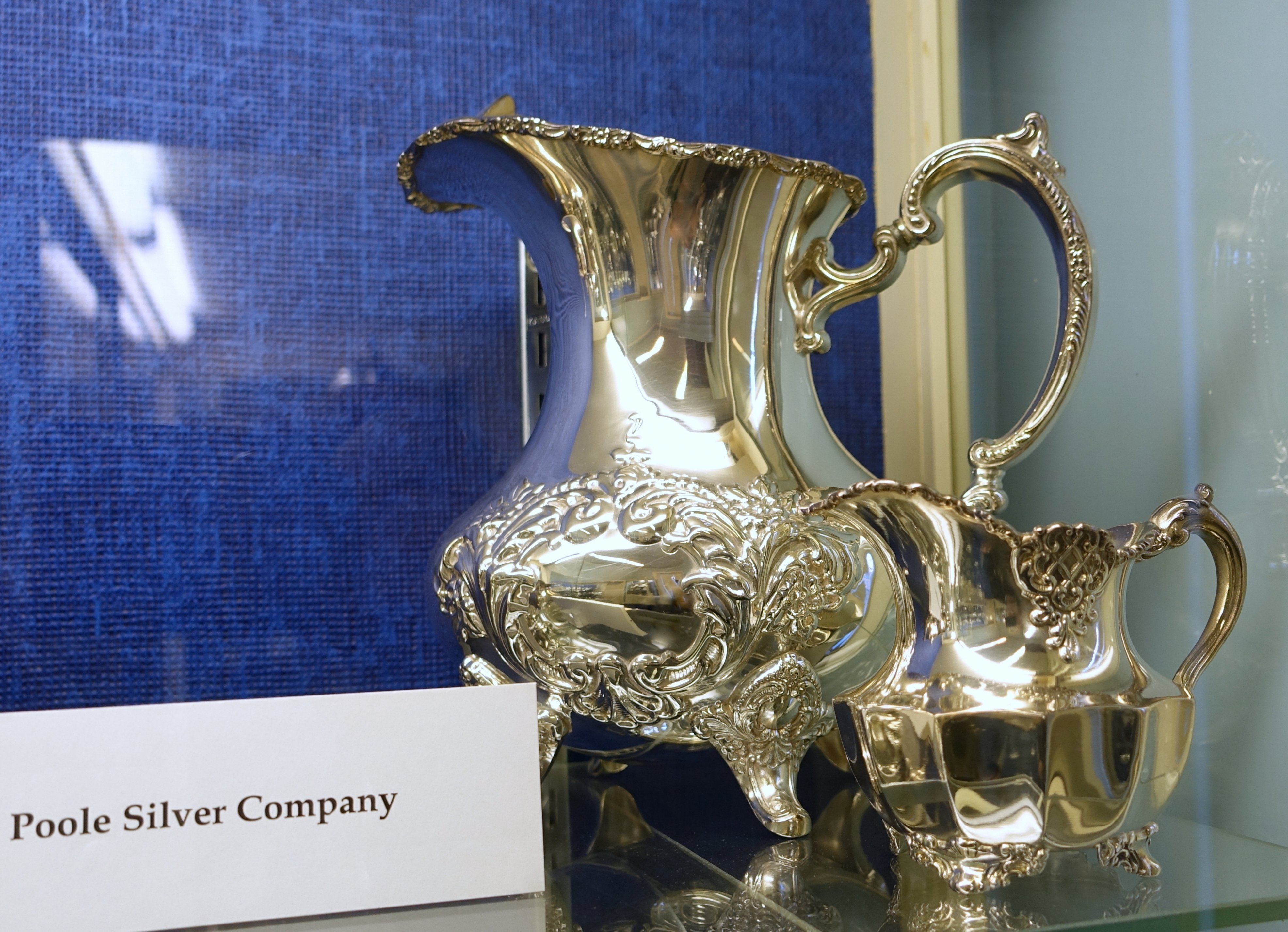 Exhibit in the Old Colony History Museum - Taunton, Massachusetts, USA.